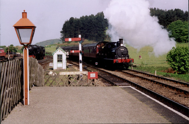 LNER J-15 65462 arrives at Weybourne with a passenger train from Sherringham. Station Lamp, diagonal fencing and semaphore signal all serve to remind of a time when the pace of life was a little slower.